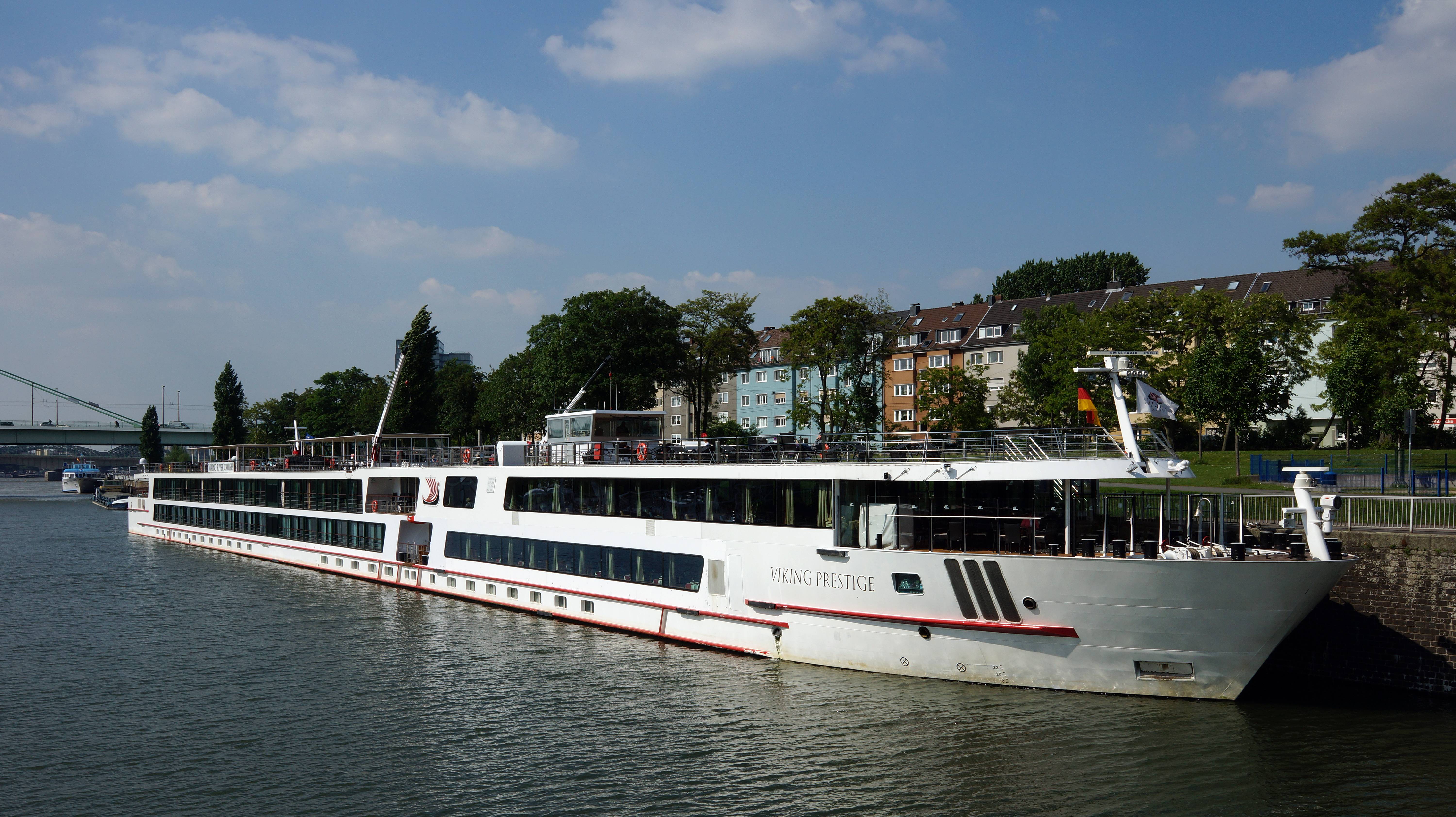 River cruise ship Viking Prestige in Cologne.